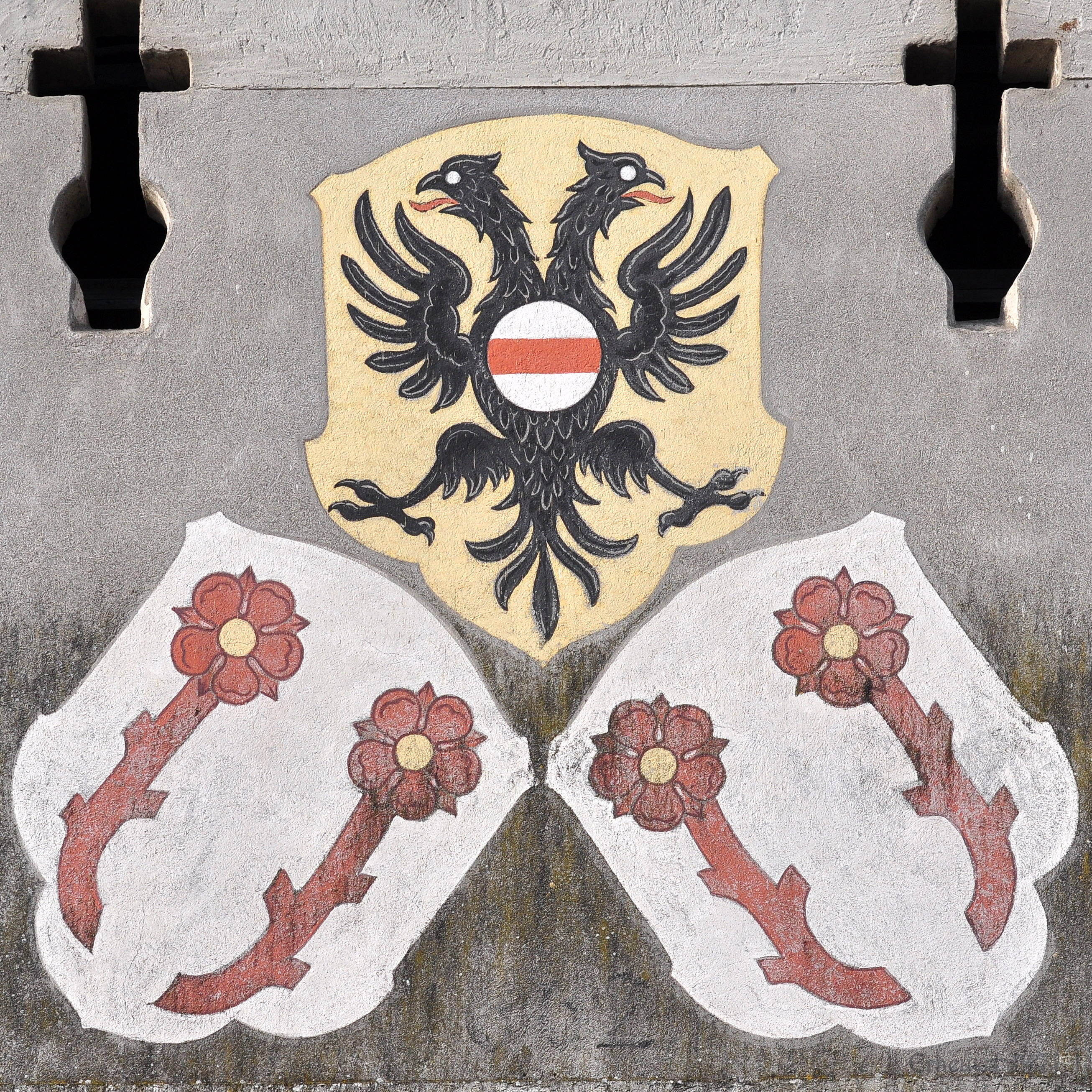 Rapperswil (Switzerland) : Fortification at Endingerhorn, Rapperswil and Habsburg coats of arms.